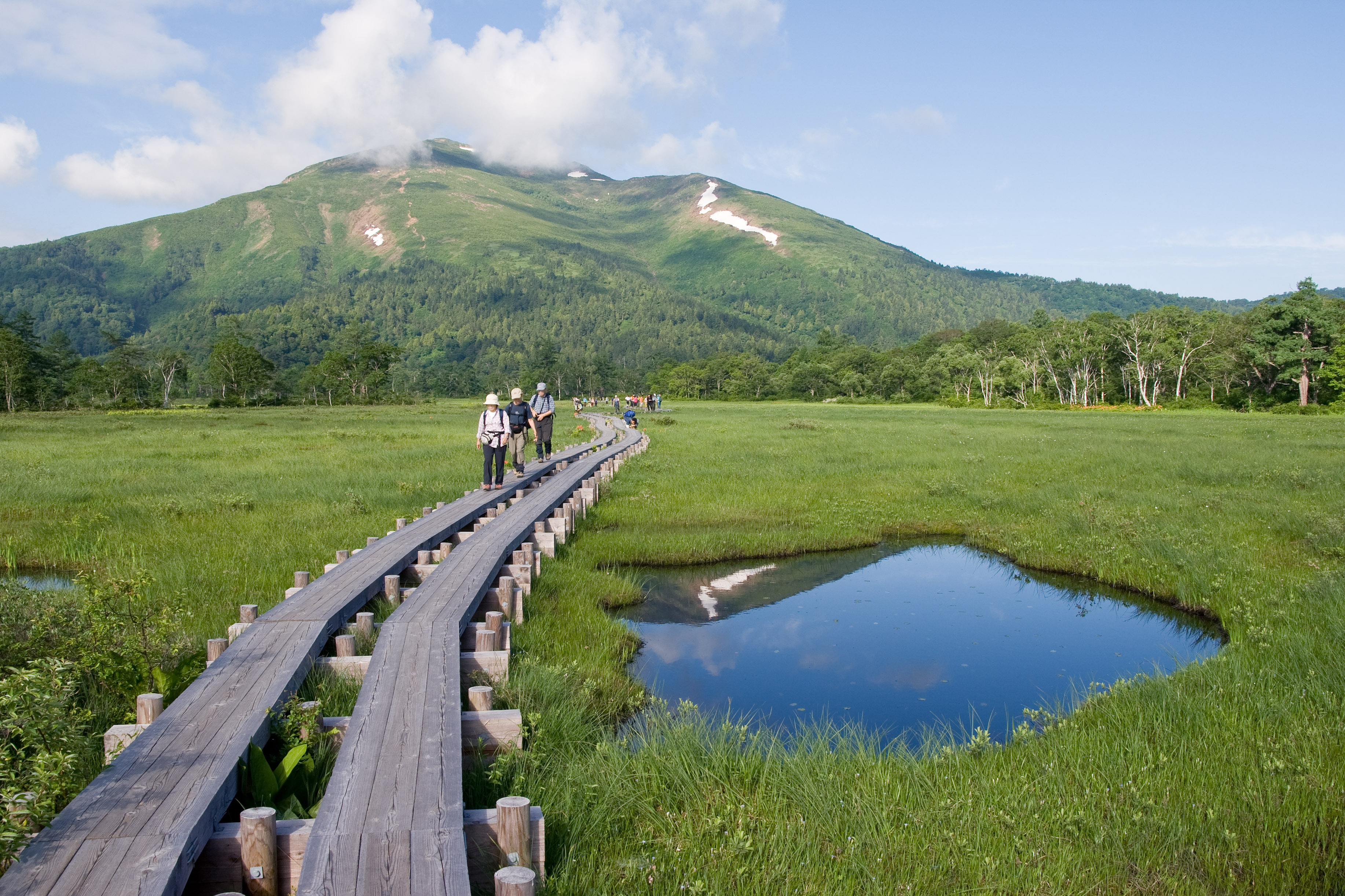 Mt.Shibutsu and Ozegahara, Katashina Vill., Gunma Pref., Japan